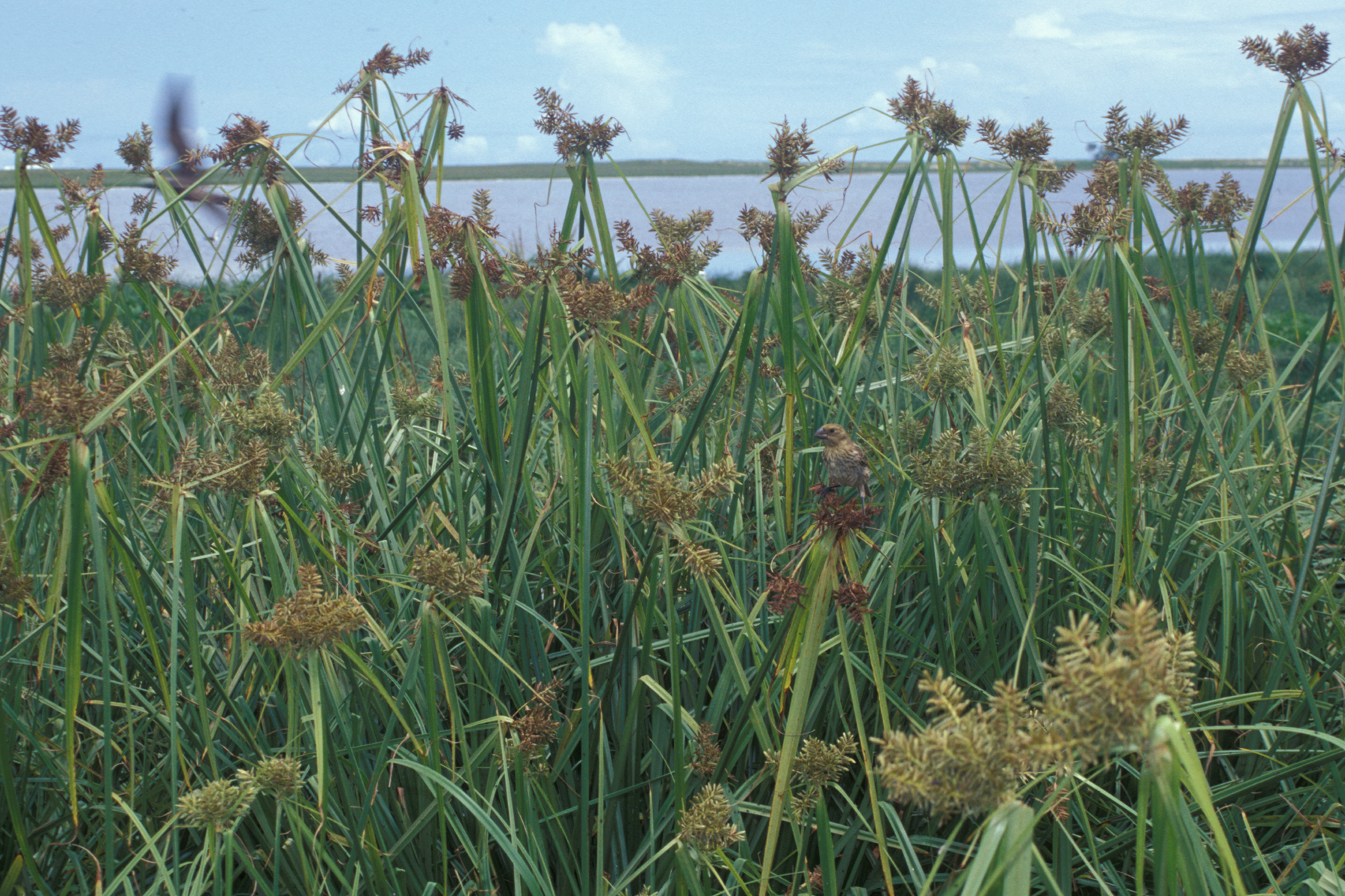 Cyperus pennatiformis var. bryanii (with Laysan finch). Location: Laysan Island, By lagoon